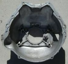 Image of Buick Olds Pontiac pattern bellhousing taken at junkyard by myself